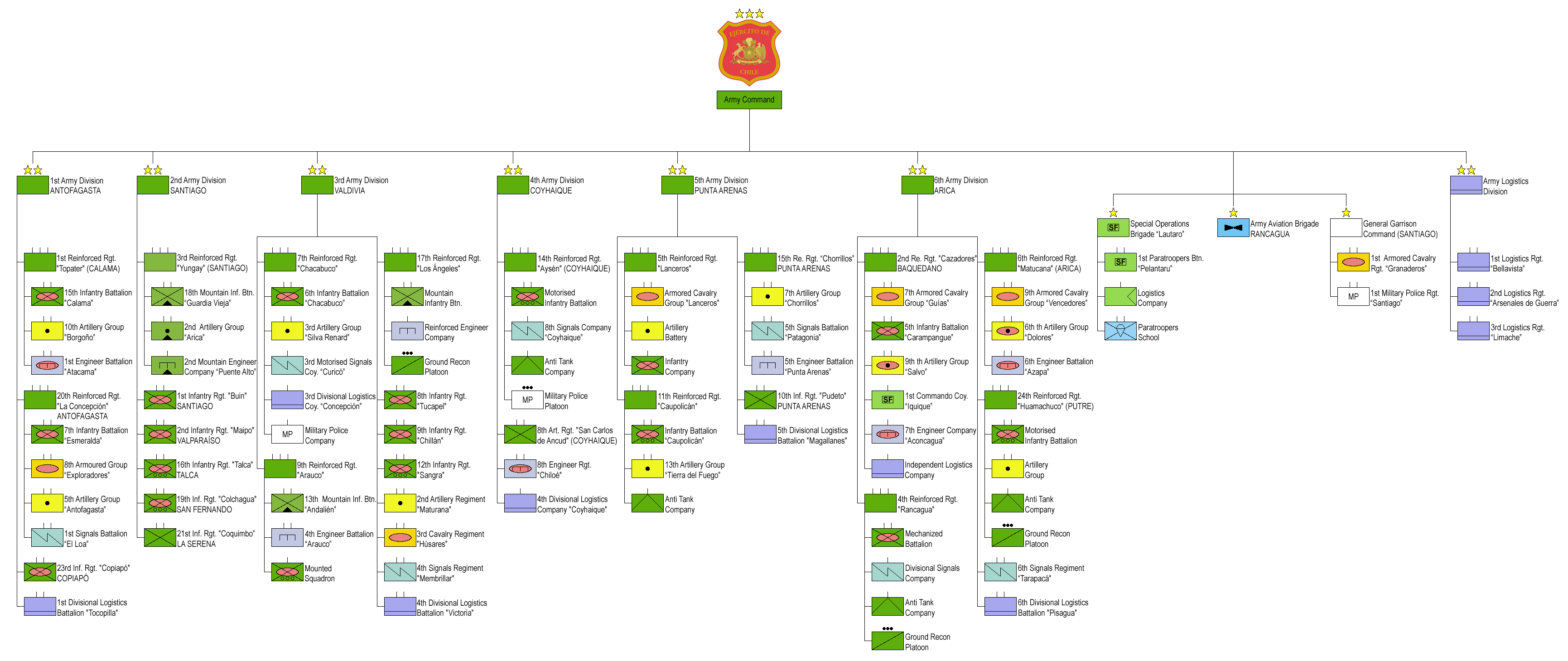 Structure of the Chilean Army